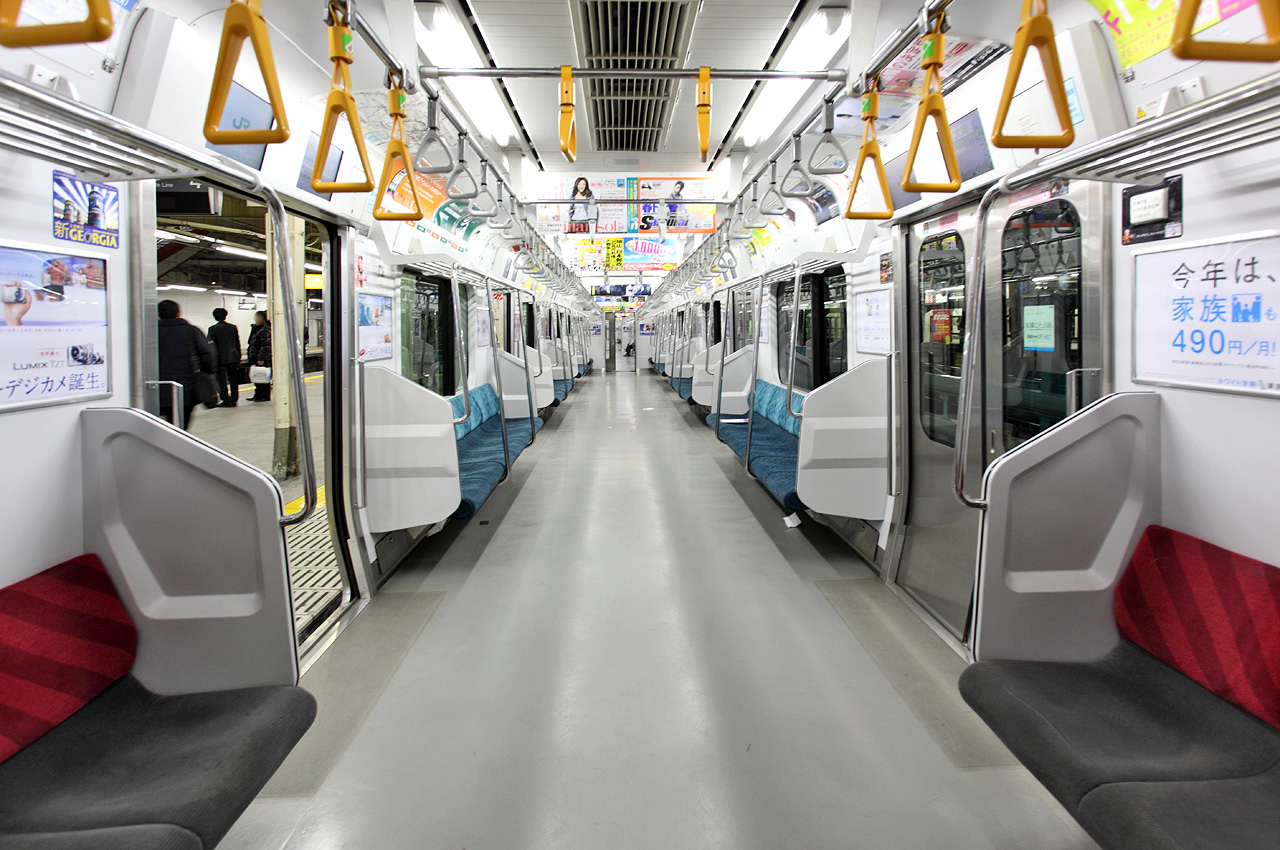 Interior of JR East E231-500 series on Yamanote Line (505F, Saha E231-505, Taken at Osaki Station).